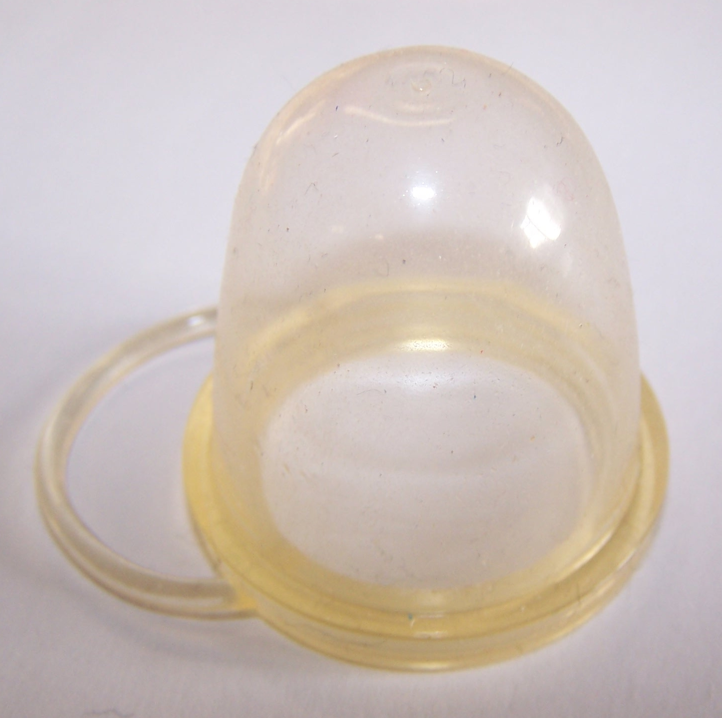 Cervical cap